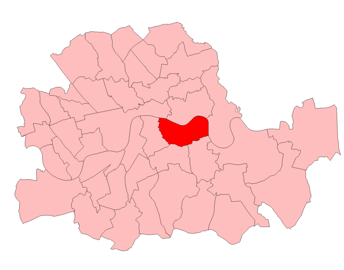 A map of Bermondsey constituency within the London County Council area, as it existed from 1950 to 1974.